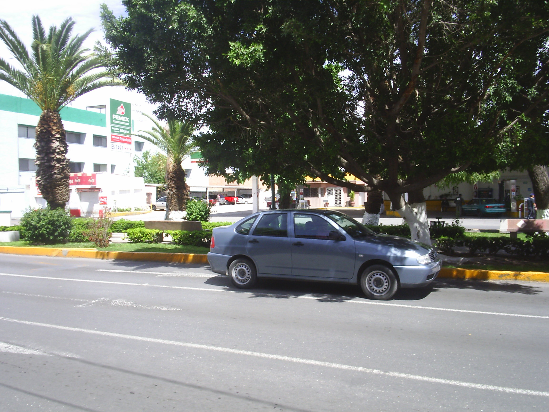 Volkswagen Derby, Photographed on Cristobal Colon Avenue on Torreon, Mexico